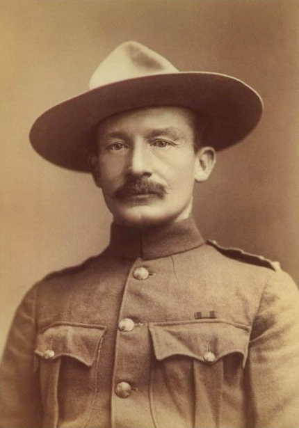 Major-General Robert Stephenson Smyth Baden-Powell, 1896. "The photograph was taken for Elliott and Fry by Francis Henry Hart in 1896 at the time of the Matabele Campaign. It was reissued at various times with different captions as Baden-Powell's fame grew. Baden Powell is decorated with an Ashanti Star ribbon."